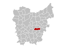 Made by User:LennartBolks